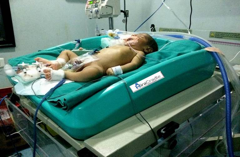 Miracradle being employed in the treatment of neonates with birth asphyxia